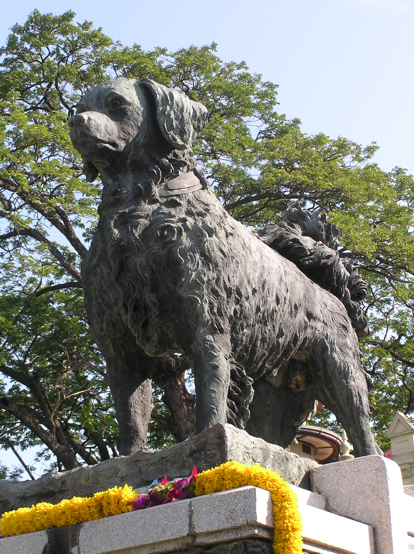 Yalee the dog Rama VI loved, statue in Sanam Chan Palace, Nakhon Pathom province รูปย่าเหล ใน พระราชวังสนามจันทร์